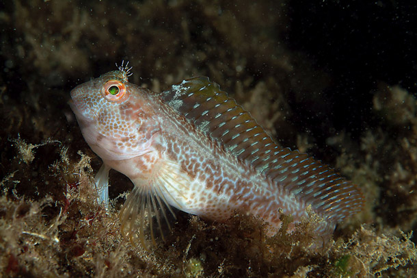 Parablennius pilicornis photographed near Livorno (Tuscany, Italy). Photo by Stefano Guerrieri.